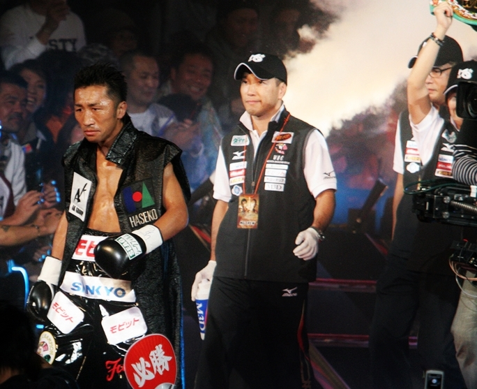 Daisuke Naitō (on the left) heading to the ring with his promoter Hiroyuki Miyata for the Kōki Kameda fight at Saitama Super Arena on November 29, 2009.